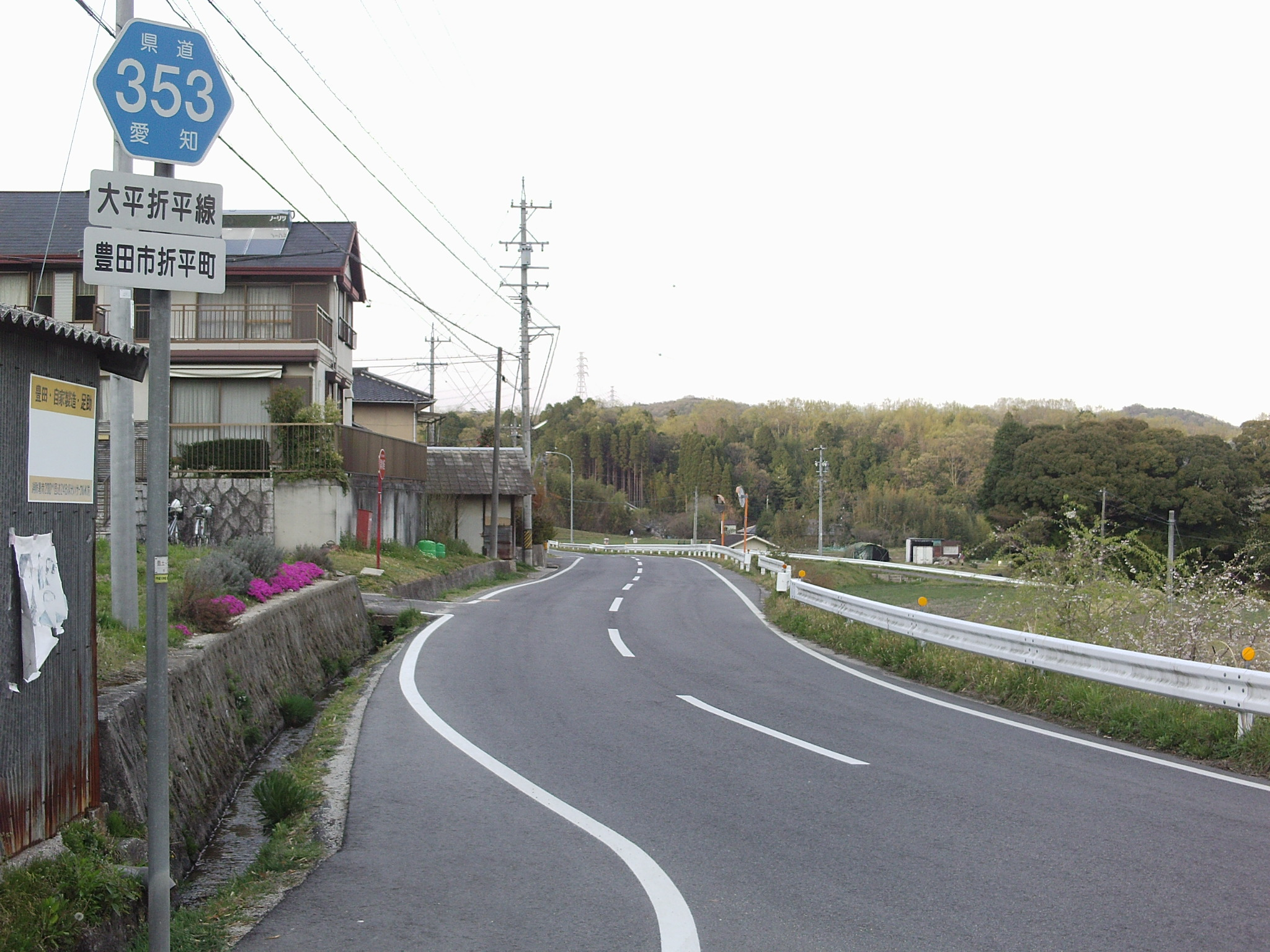 Aichi prefectural road No.353 in Oridairacho, Toyota, Aichi.